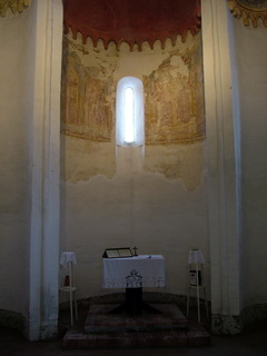 The rotunda of Kiszombor. The sanctuary.